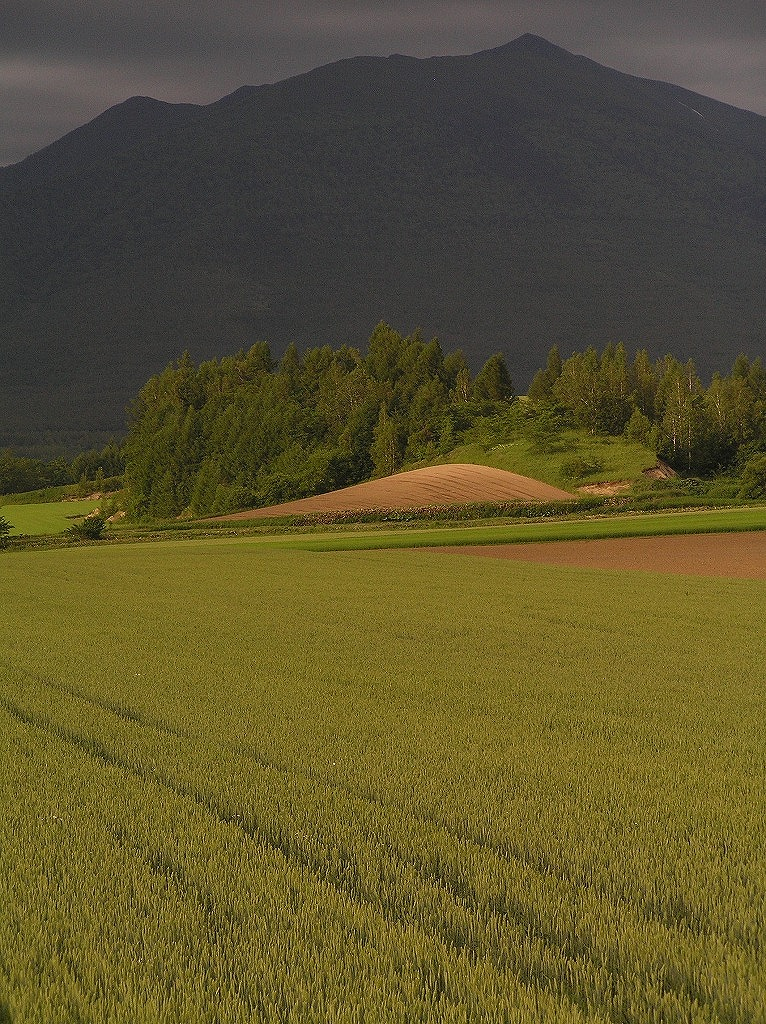 Ｆurano Basin 6300052 富良野盆地